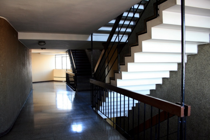 Vista panoramica desde el tercer piso